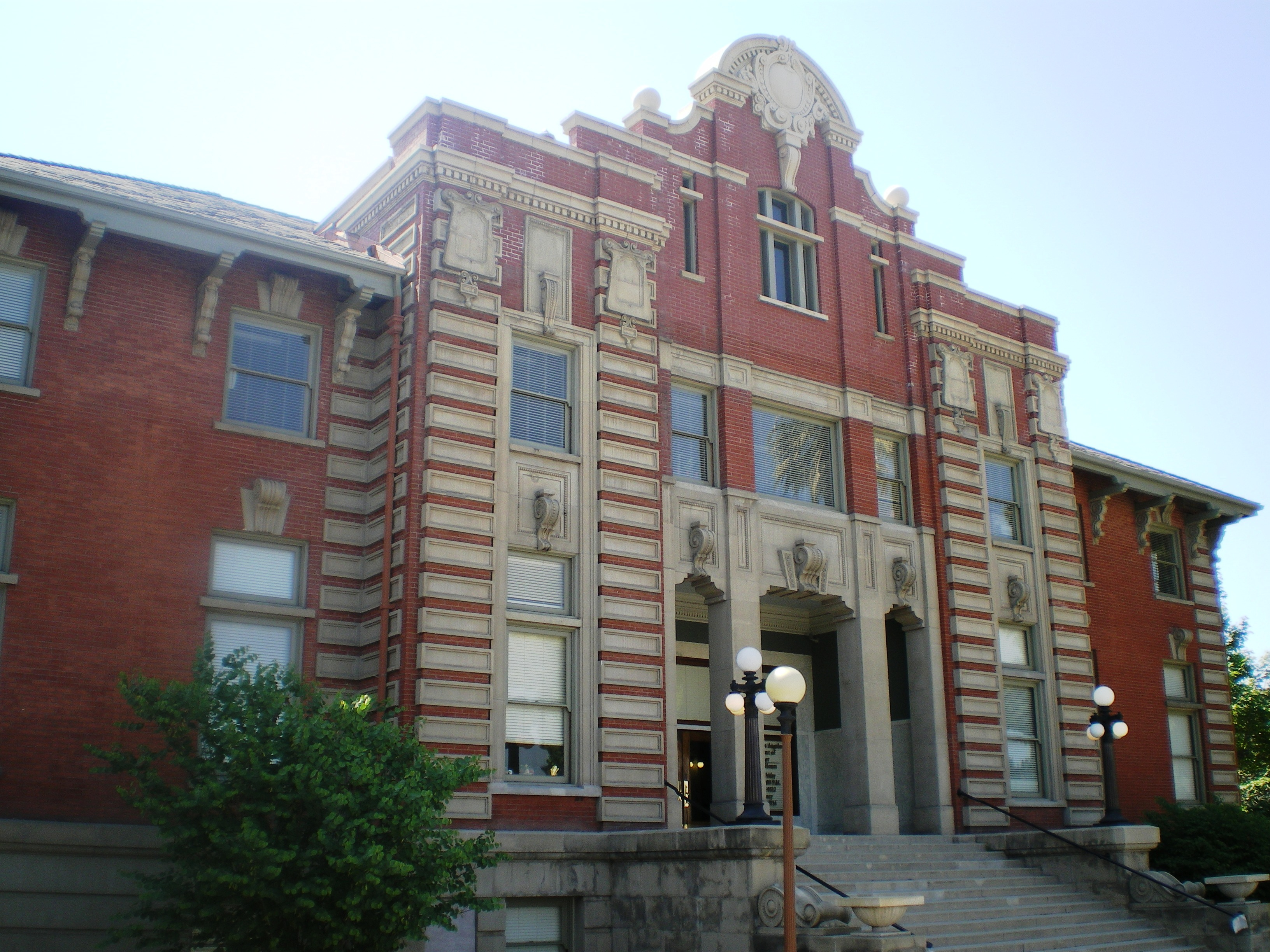 Los Angeles County Coroner Building, 1104 N. Mission Rd., Los Angeles, California